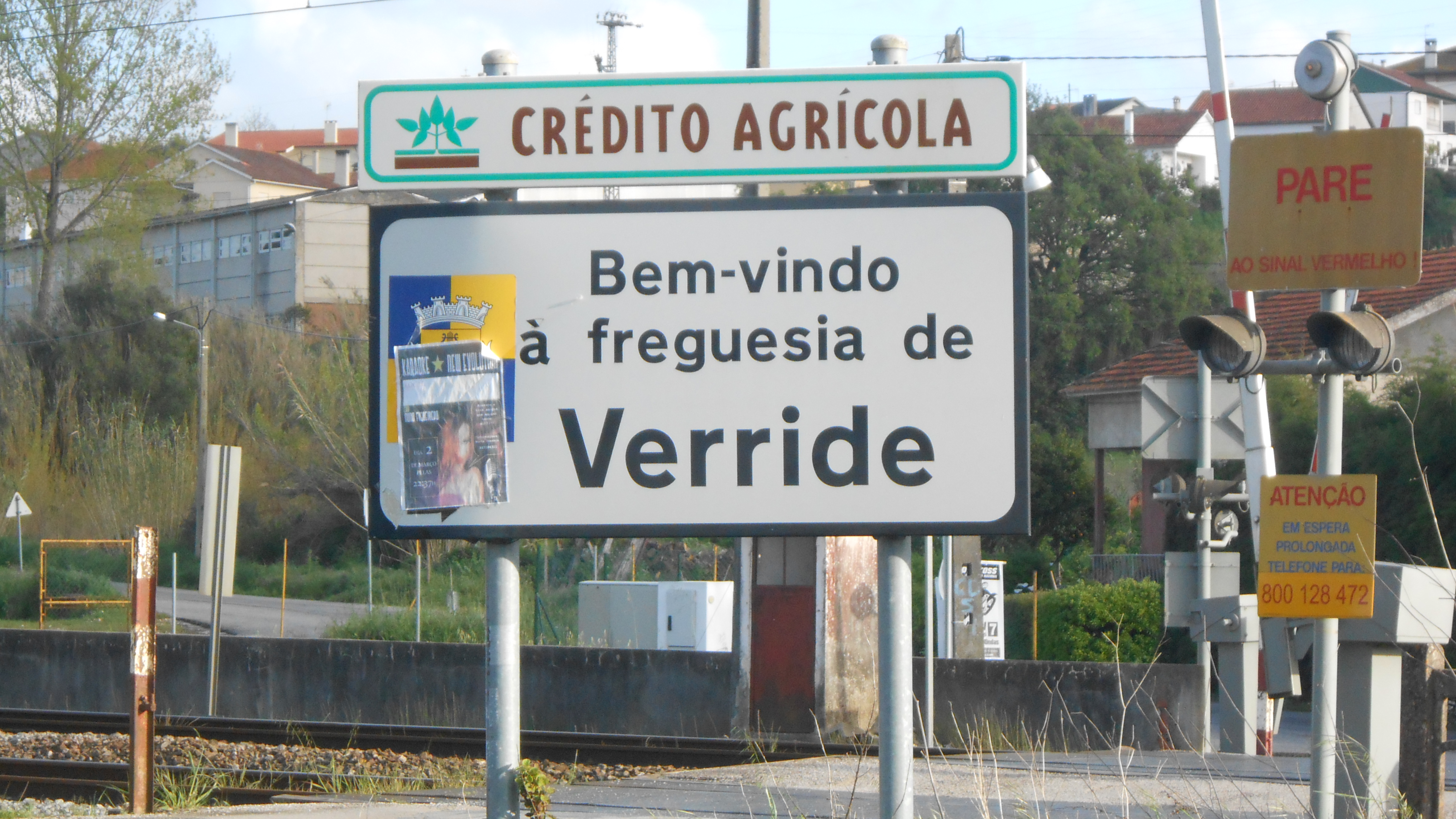 Entry sign of the parish of Verride, municipality of Montemor-o-Velho, district of Coimbra, Portugal, at the road crossing and coming in direction of Ereira